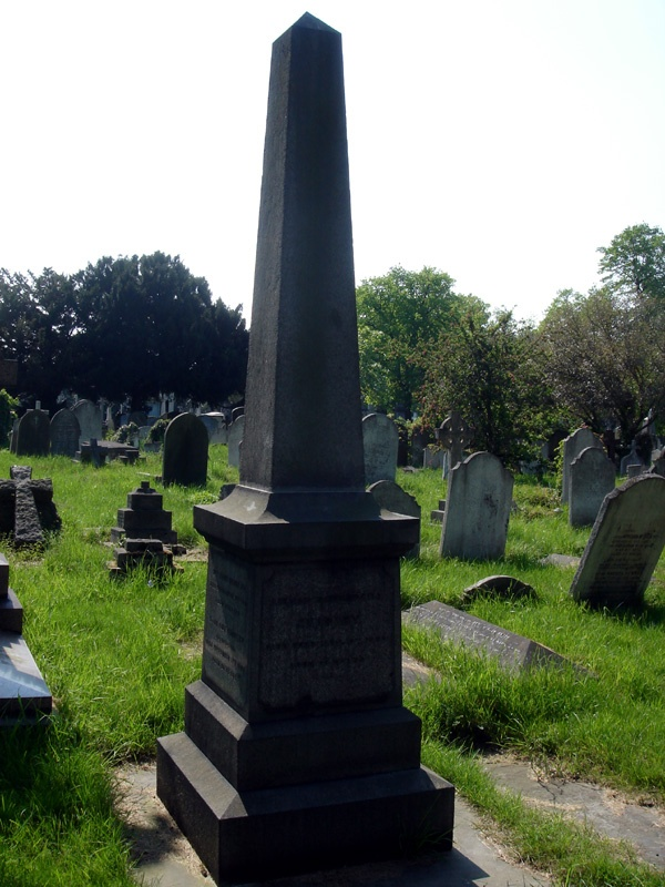 Henry Fothergill Chorley funerary monument, Brompton Cemetery, London